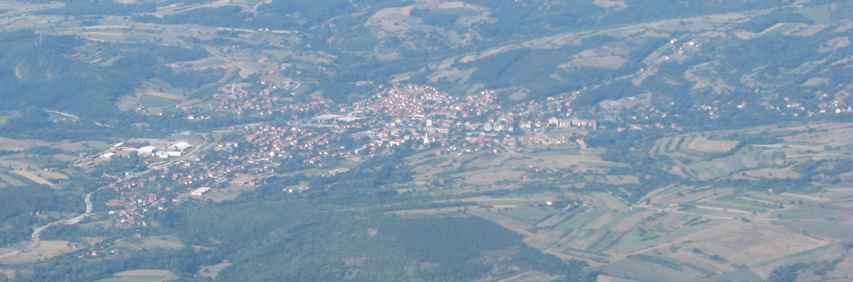 View on Boljevac from Rtanj mountain,Serbia.